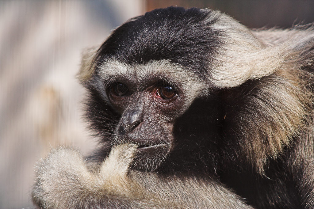 Pileated Gibbon (Hylobates pileatus) in a zoo.